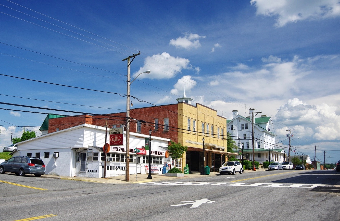 Businesses along Main Street (US Route 52) in Hillsville, Virginia, United States. Hillsville Diner is on the left.